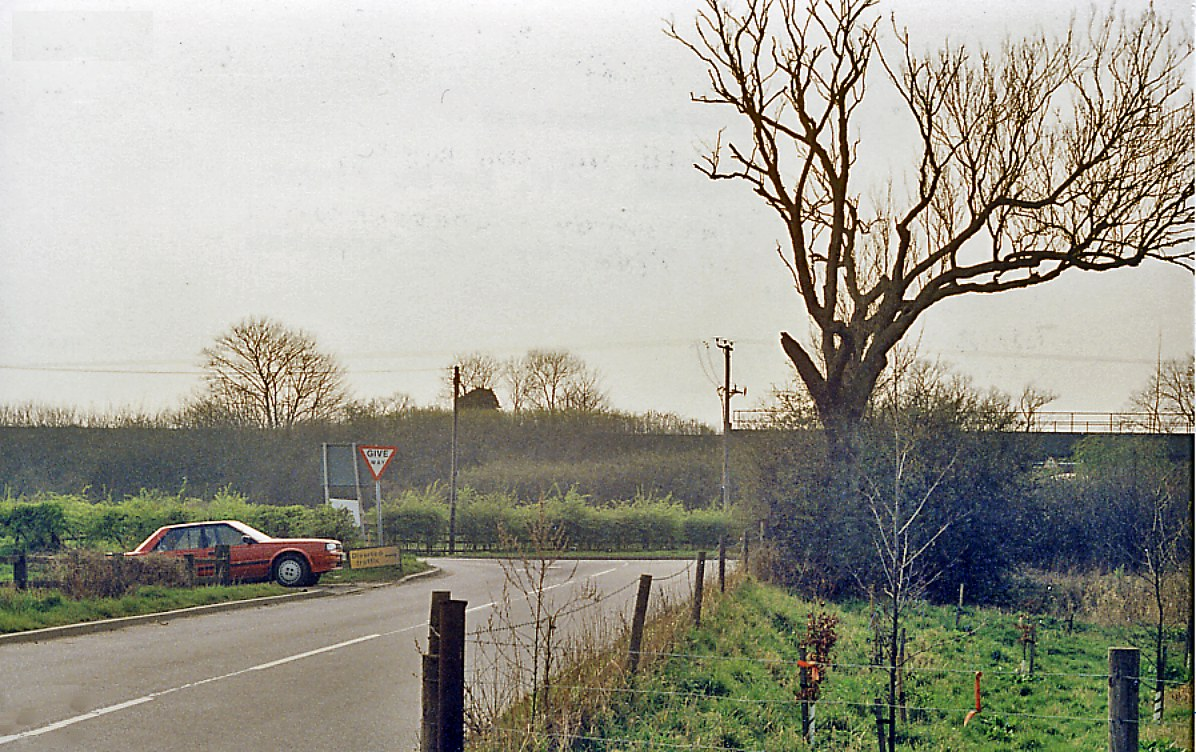 Site of Croxall station, 1989. View NW on A513 to the site of Croxall station on the ex-Midland Derby (to right) - Birmingham (to left) main line: the station had been closed since 9/7/28 - so nothing to be seen in 1989.